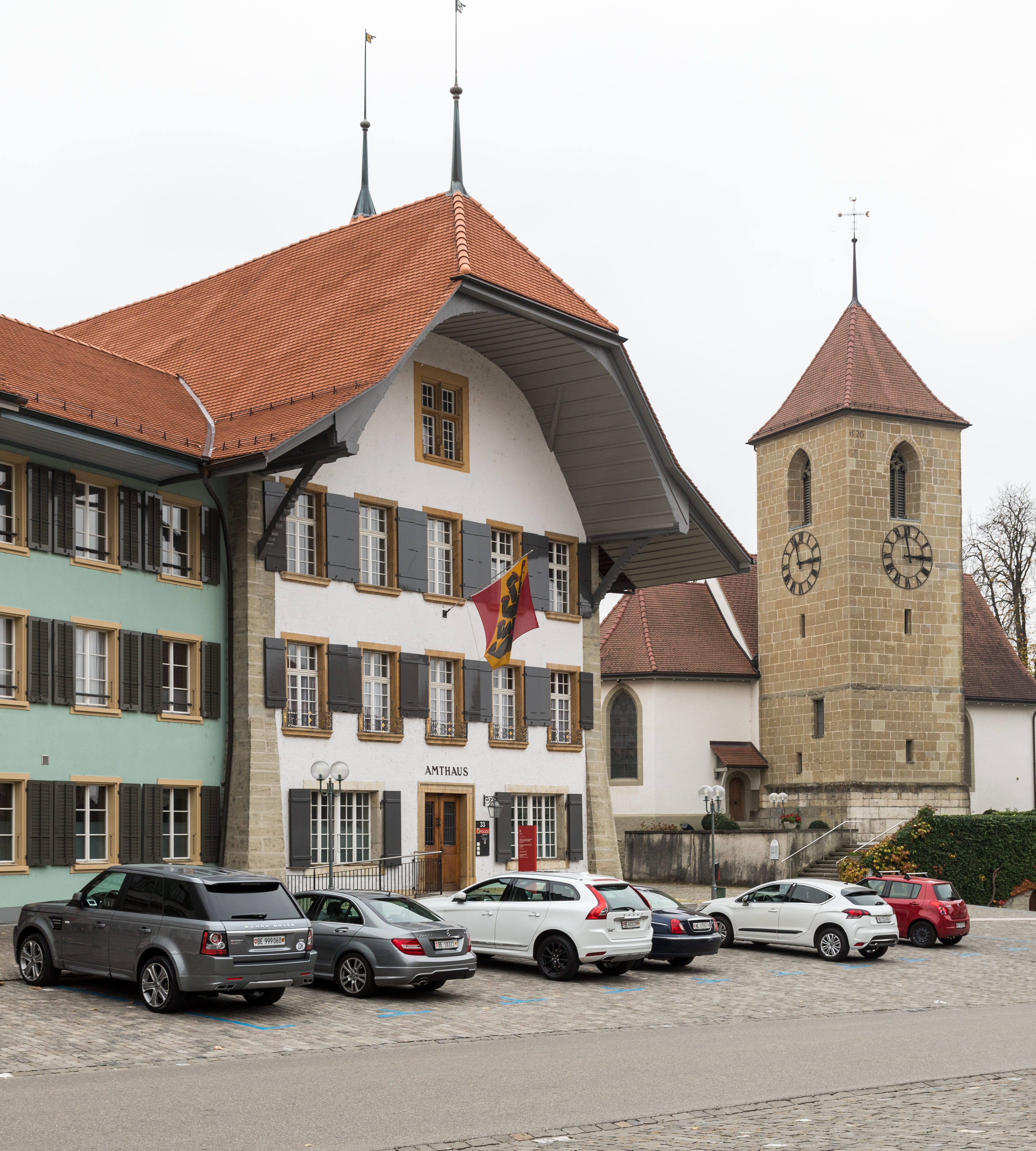 Aarberg Castle and Reformed Church, canton of Berne, Switzerland